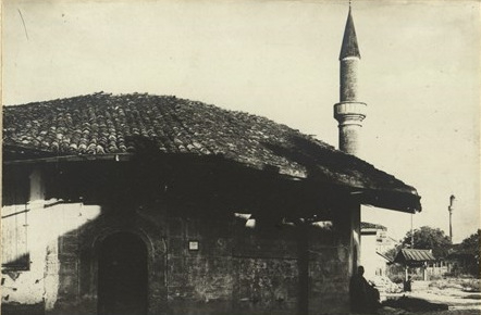 Bulgaria